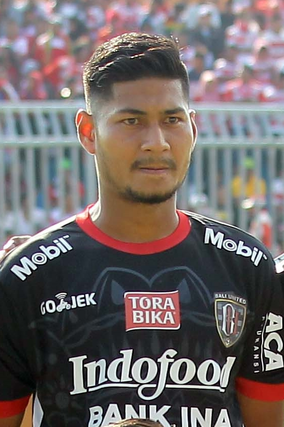 Laga home perdana GoJek Traveloka Liga 1 Madura United melawan Bali United Yang berakhir dengan skor 2-0 di Stadion Ratu Pamellingan Pamekasan, Jawa Timur, Minggu (16/04/2017) sore. Suci Rahayu